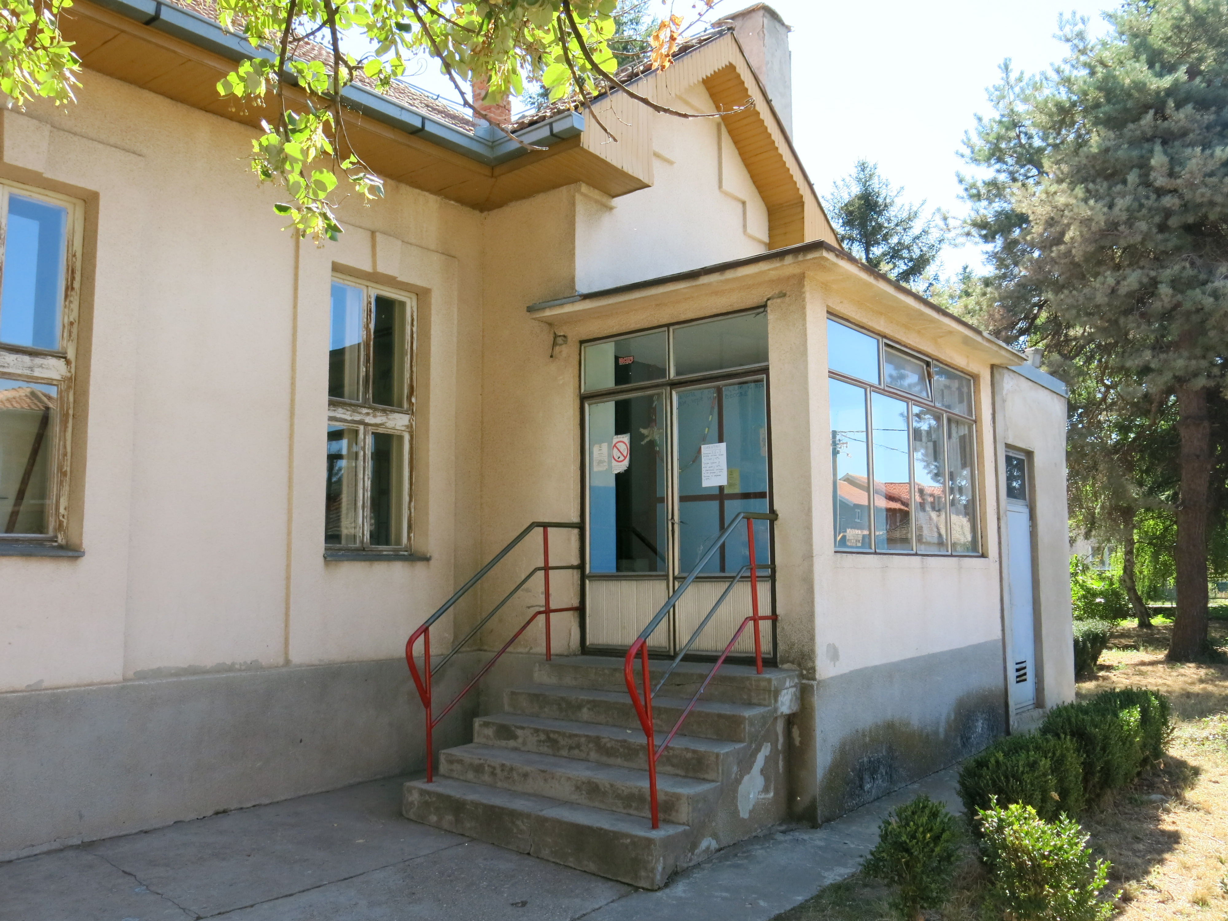 Petrijevo, Elementary school Branislav Nušić